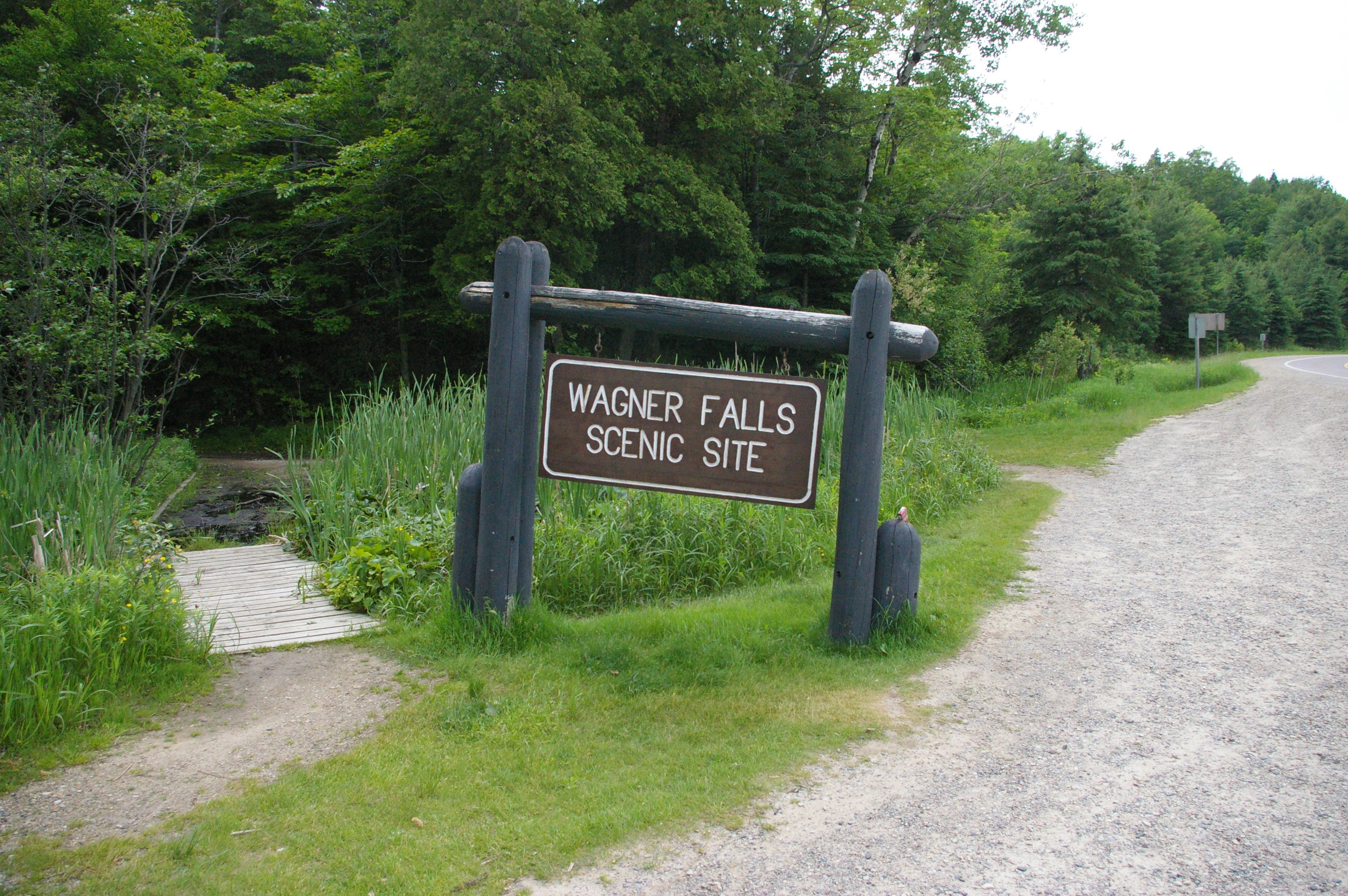 Sign for the Wagner Falls Scenic Site near Munising, MI